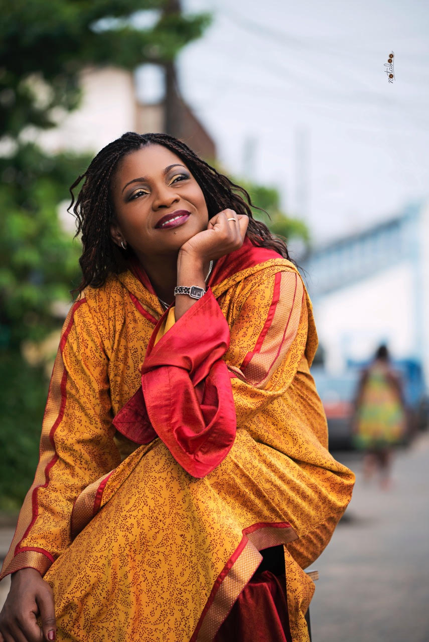 Hemley Boum-New Bell-Douala-Jan2016